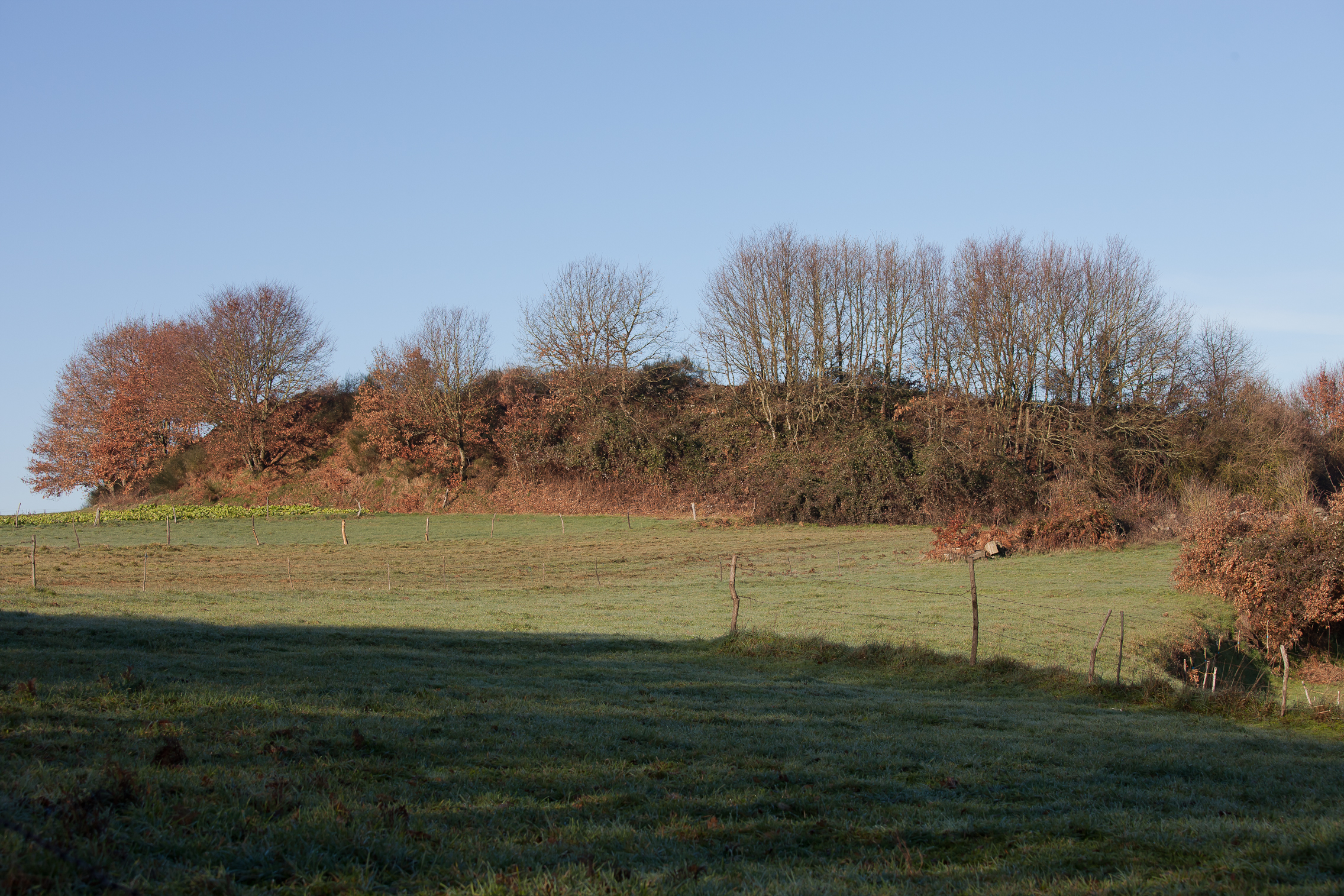 Hill fort of Doade, Lalín